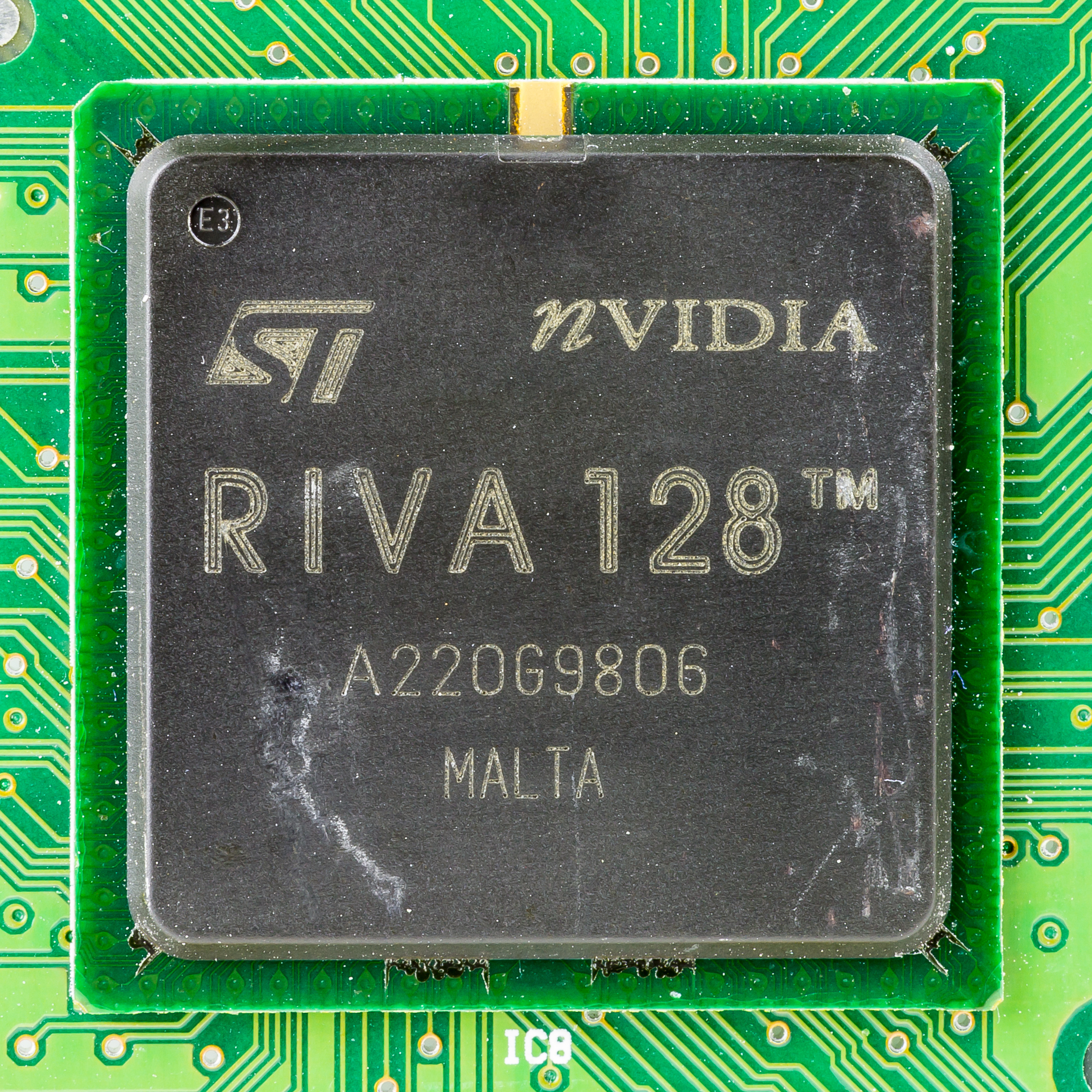 Elsa Victory Erazor-AGP-4 - Nvidia RIVA 128